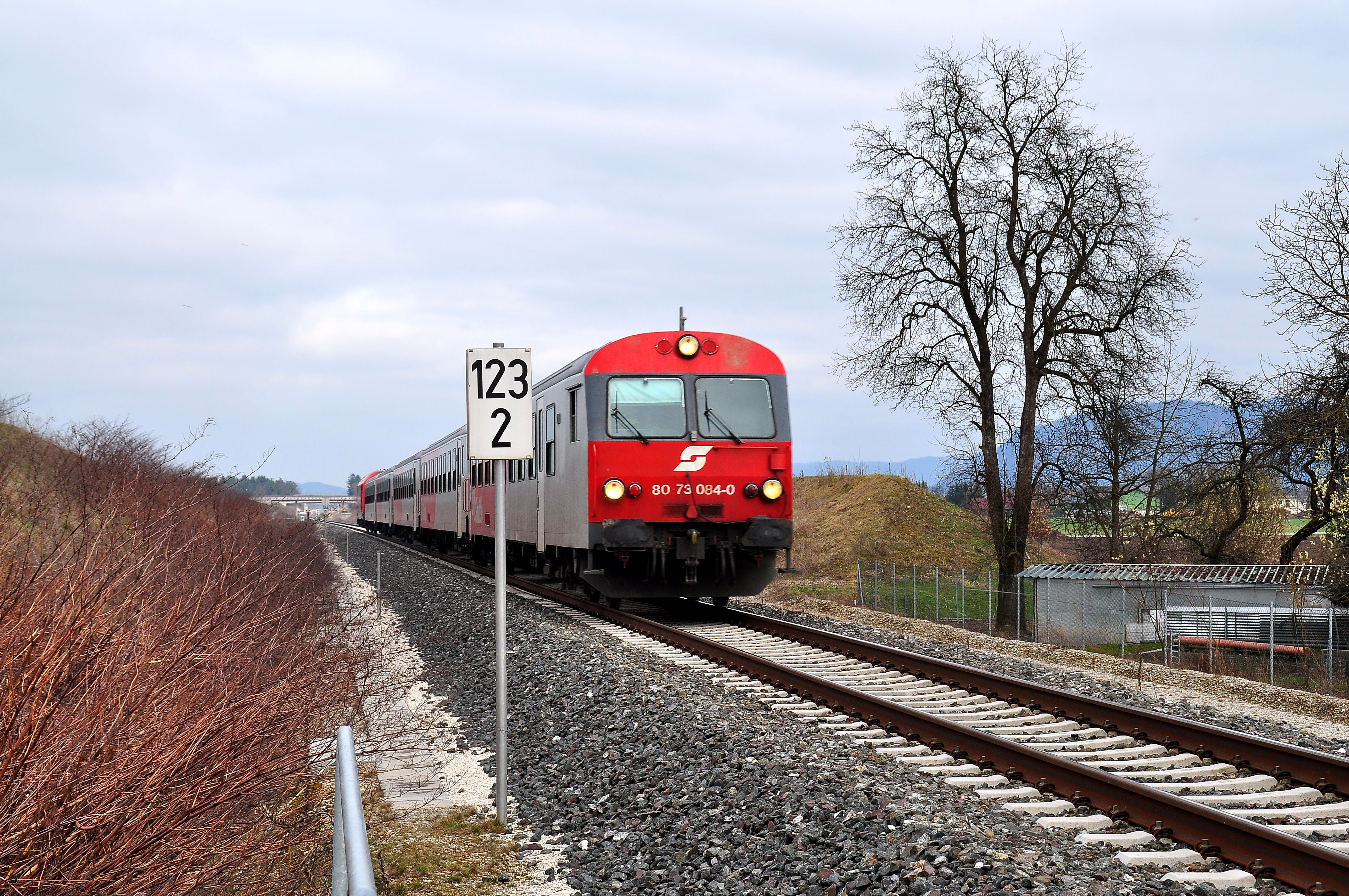 Train on the Koralmbahn near Südring, 10th district «Sankt Peter», municipality Klagenfurt, Carinthia, Austria, EU